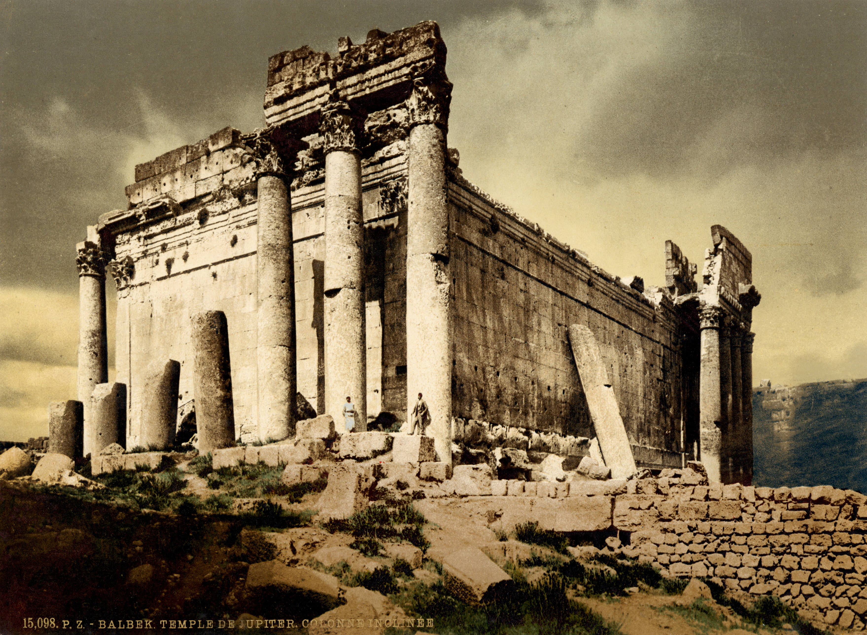 Temple of Jupiter, leaning column, Baalbek, Holy Land, (i.e., Ba'labakk, Lebanon) Taken from the Detroit Publishing Co. Collection at the U.S. Library of Congress. [PD] This picture is in the public domain.